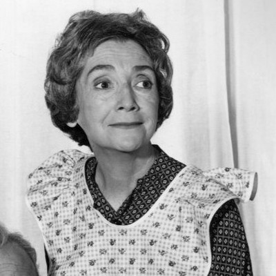 Photo of Lee J. Cobb and Mildred Dunnock from the 1966 television presentation of Death of a Salesman. The program was rebroadcast in March 1967.